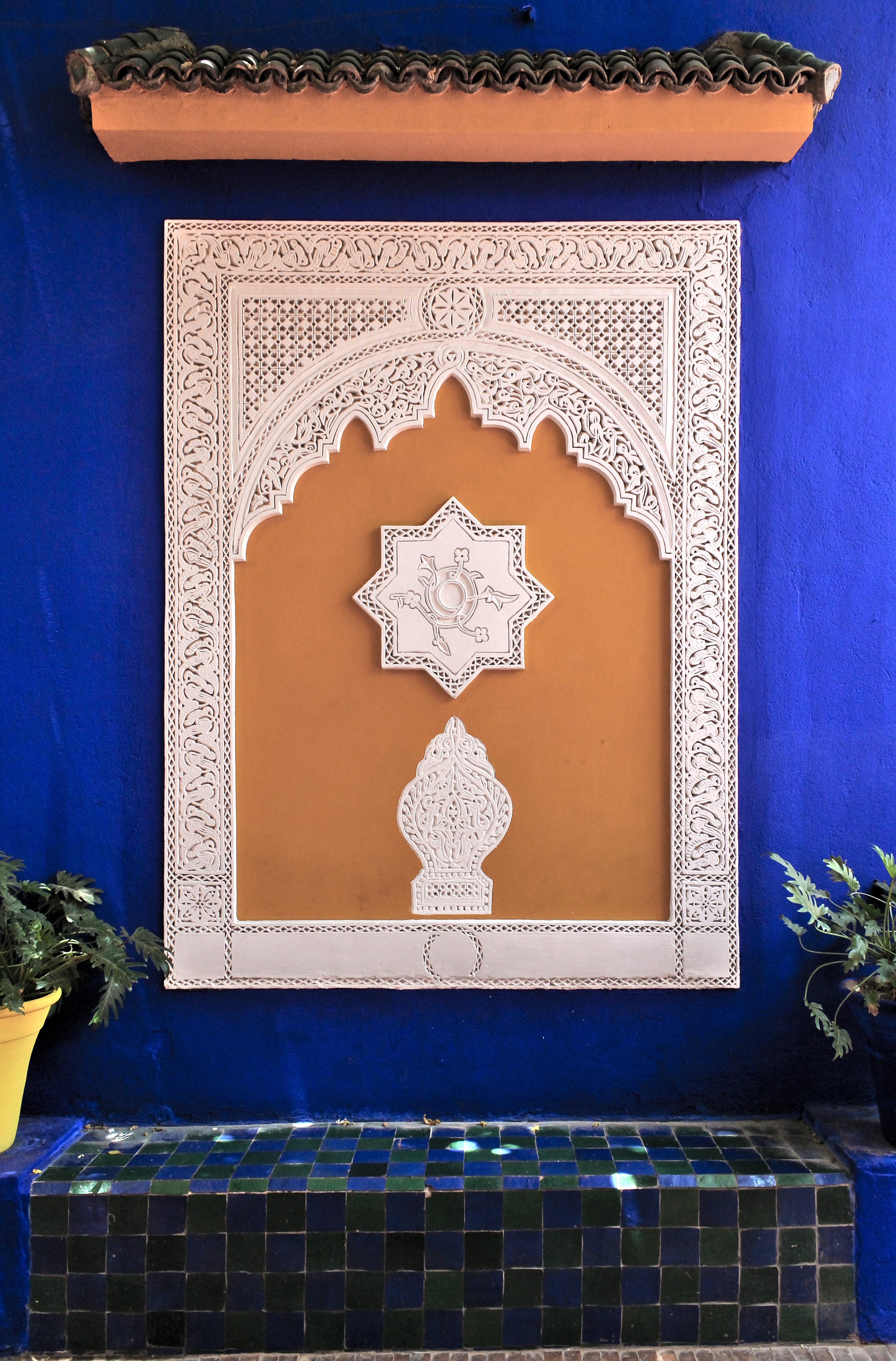 Bench and stuccos in the Majorelle Garden, Marrakech, Morocco.